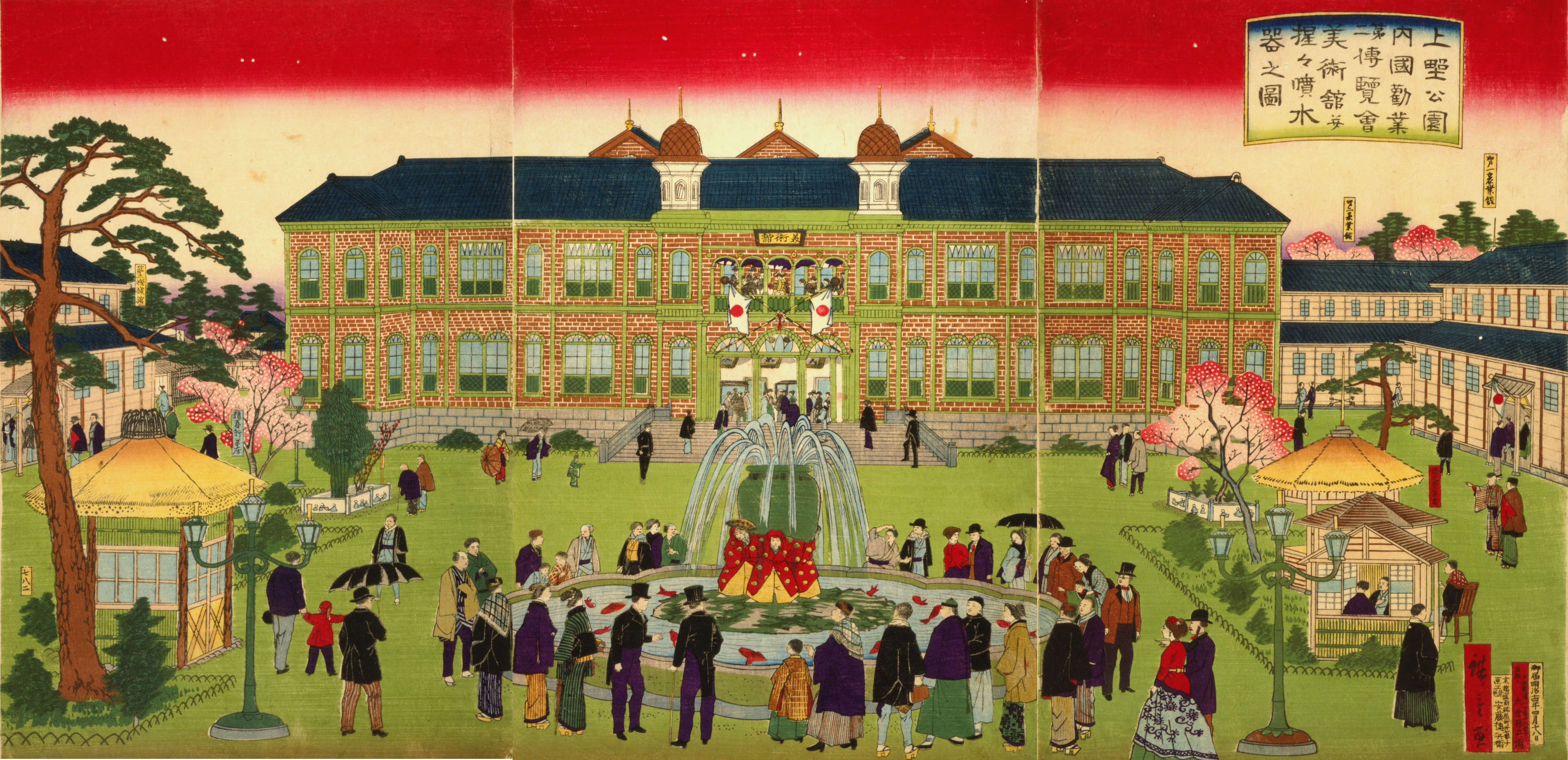 Ueno kōen naikoku kangyō daini hakurankai bijutsukan narabini [shojo] funsuiki no zu (Japanese: 上野公園内国勧業第二博覧会美術館ならびに猩々噴水器之図, "Second national industrial exhibition at Ueno Park"). Japanese triptych print showing people gathered at Ueno Park, most of them viewing a fountain with goldfish.